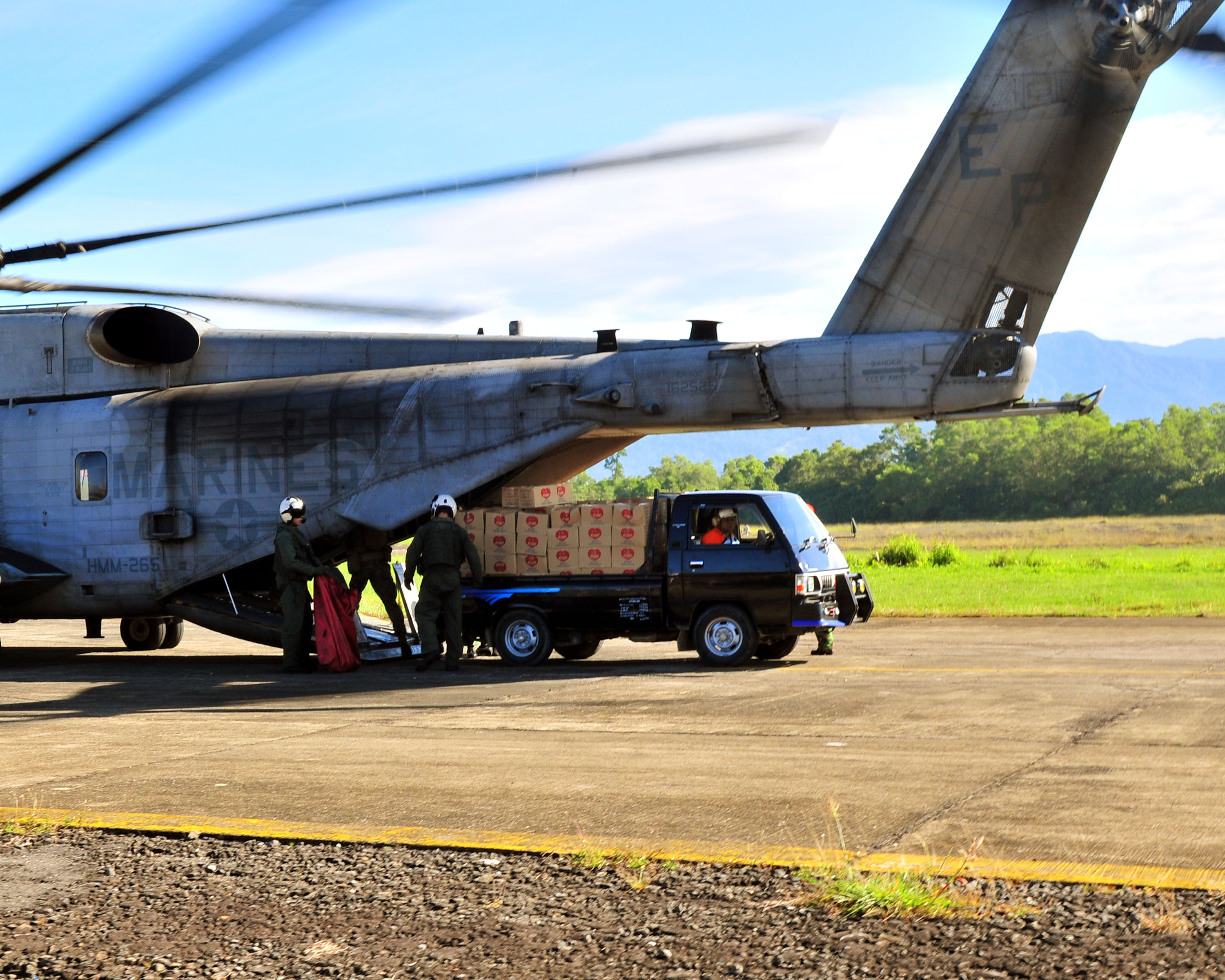 PADANG, Indonesia (Oct. 9, 2009) Marines assigned to Marine Medium Helicopter Squadron (HMM) 265, assist Indonesian military members load a CH-53E Super Stallion helicopter with relief supplies for victims of recent earthquakes and resulting landslides in remote villages in west Sumatra. HMM-265 is assigned to the 31st Marine Expeditionary Unit (MEU) aboard the amphibious transport dock ship USS Denver (LPD 9). Military forces are providing earthquake recovery and assistance at the request of the Indonesian government as part of a combined Indonesian and U.S. military effort to assist disaster victims. (U.S. Navy photograph by Chief Mass Communication Specialist Ty Swartz/Released)